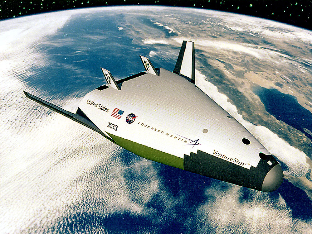 X-33 Venture Star - Reusable Launch Vehicle In this artist's concept, the X-33 Venture Star, a Reusable Launch Vehicle (RLV), manufactured by Lockheed Martin Skunk Works, is shown in orbit with a deployed payload. The Venture Star was one of the earliest versions of the RLV's developed to replace the aging shuttle fleet. The X-33 program was cancelled in 2001.